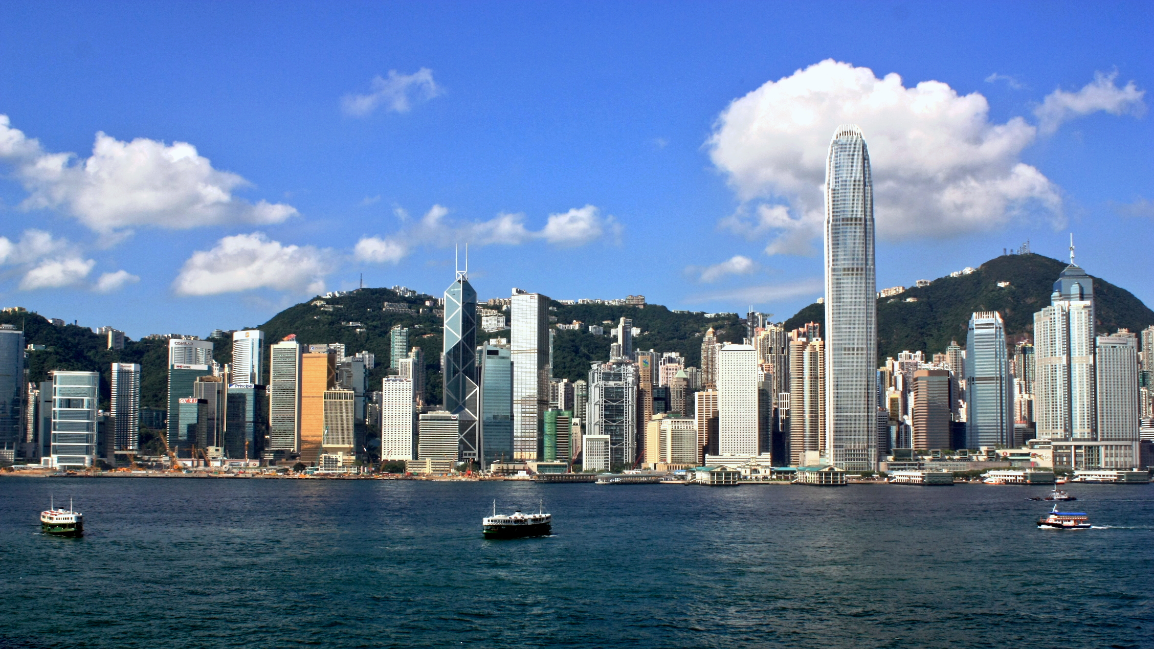 Skyline of Central